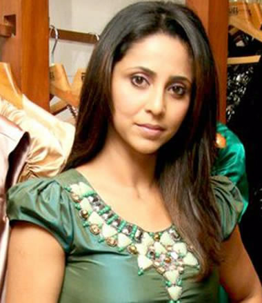 Gautami Kapoor at 'Fuel's Style and Sculpture' workshop